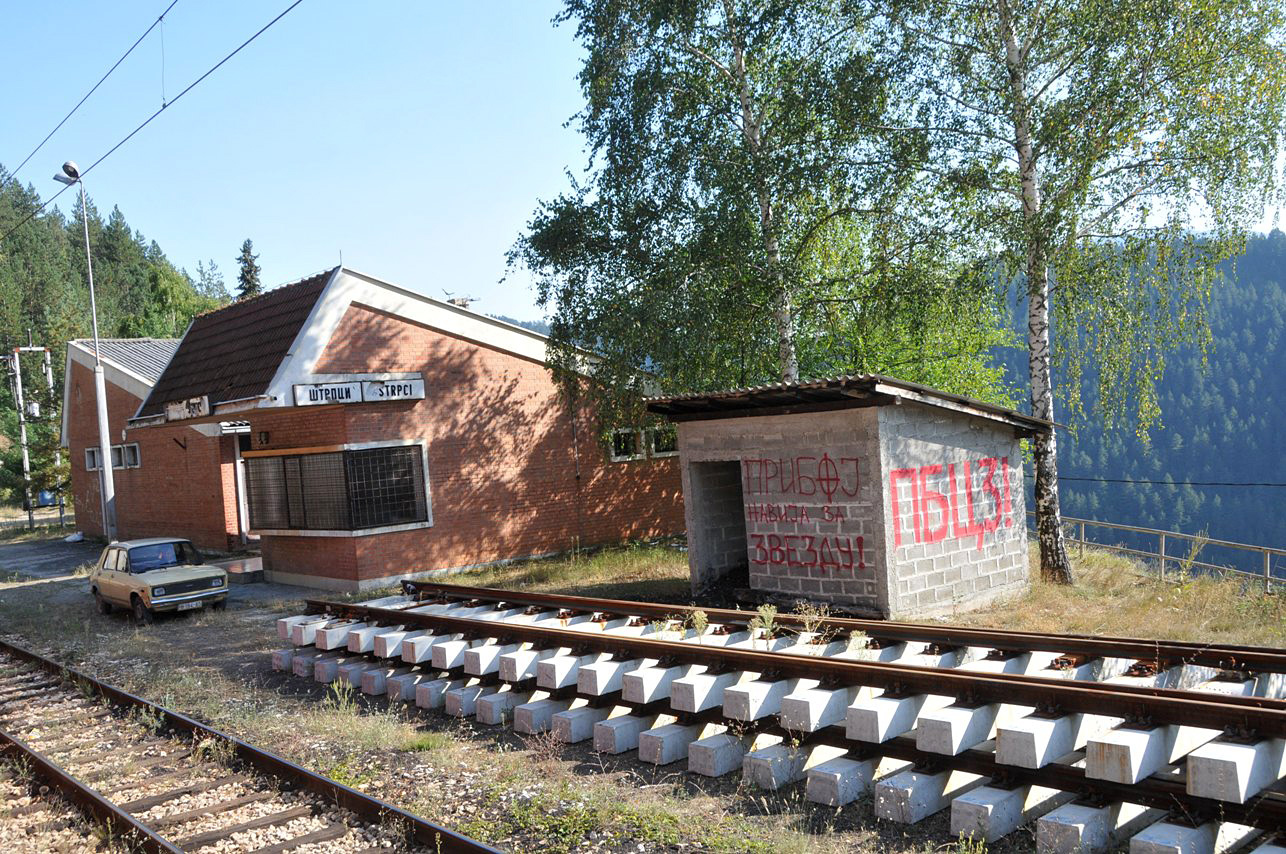 Štrpci rail station, Bosnia and Herzegovina